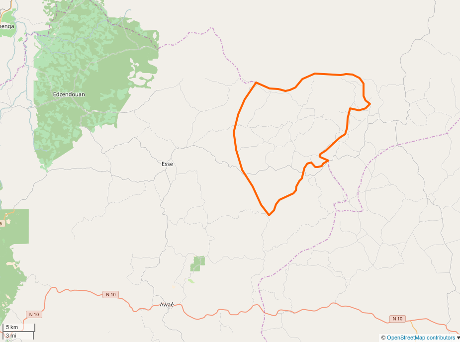 City boundaries Afanloum, Cameroon, with OSM. This map may be incomplete, and may contain errors. Don't rely solely on it for navigation.